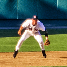 The California Angels meet the Boston Red Sox in a game @ Fenway Park on August 17, 1996. The imposing shadows are due to a 4:00 PM start time to accommodate the national TV audience. Imagine Chili trying to hit against Roger Clemons and deal with the shadows. Check out the box score @